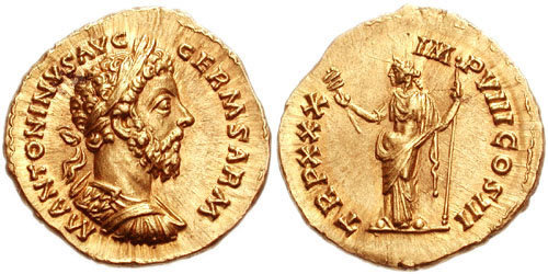 MARCUS AURELIUS. 161-180 AD. AV Aureus (20mm, 7.33 g, 12h). Struck 176 AD. M ANTONINVS AVG GERM SARM, laureate and cuirassed bust right, seen from behind / TR P XXX IM-P VIII COS III, Felicitas standing facing, head left, holding caduceus in right hand, sceptre in left. RIC III 357 corr. (no P P); MIR 18, 322-2/35; Calicó 2017; BMCRE 674; Cohen -.